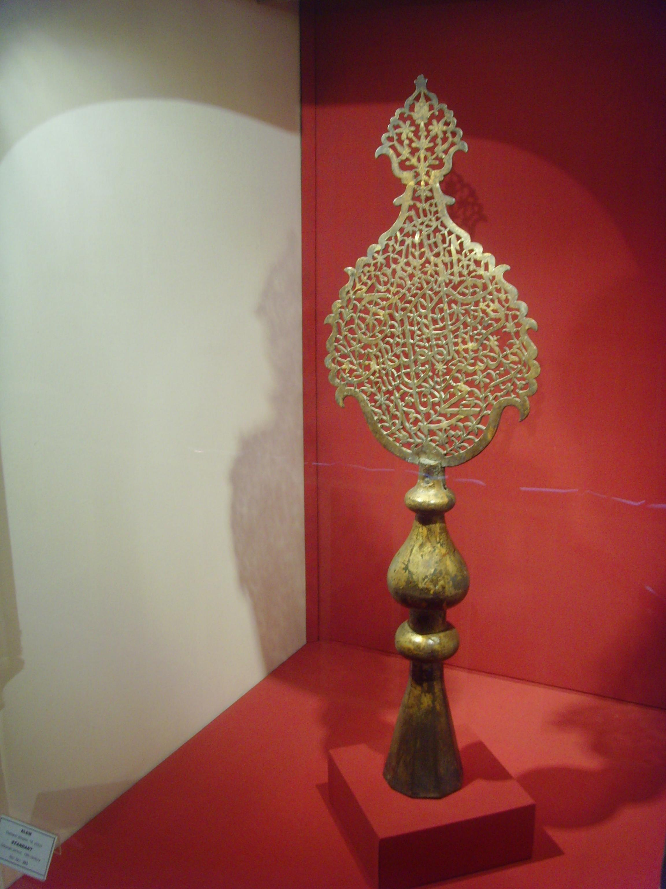 Ottoman alem - 18th century - Collection of Turkish and Islamic Arts Museum